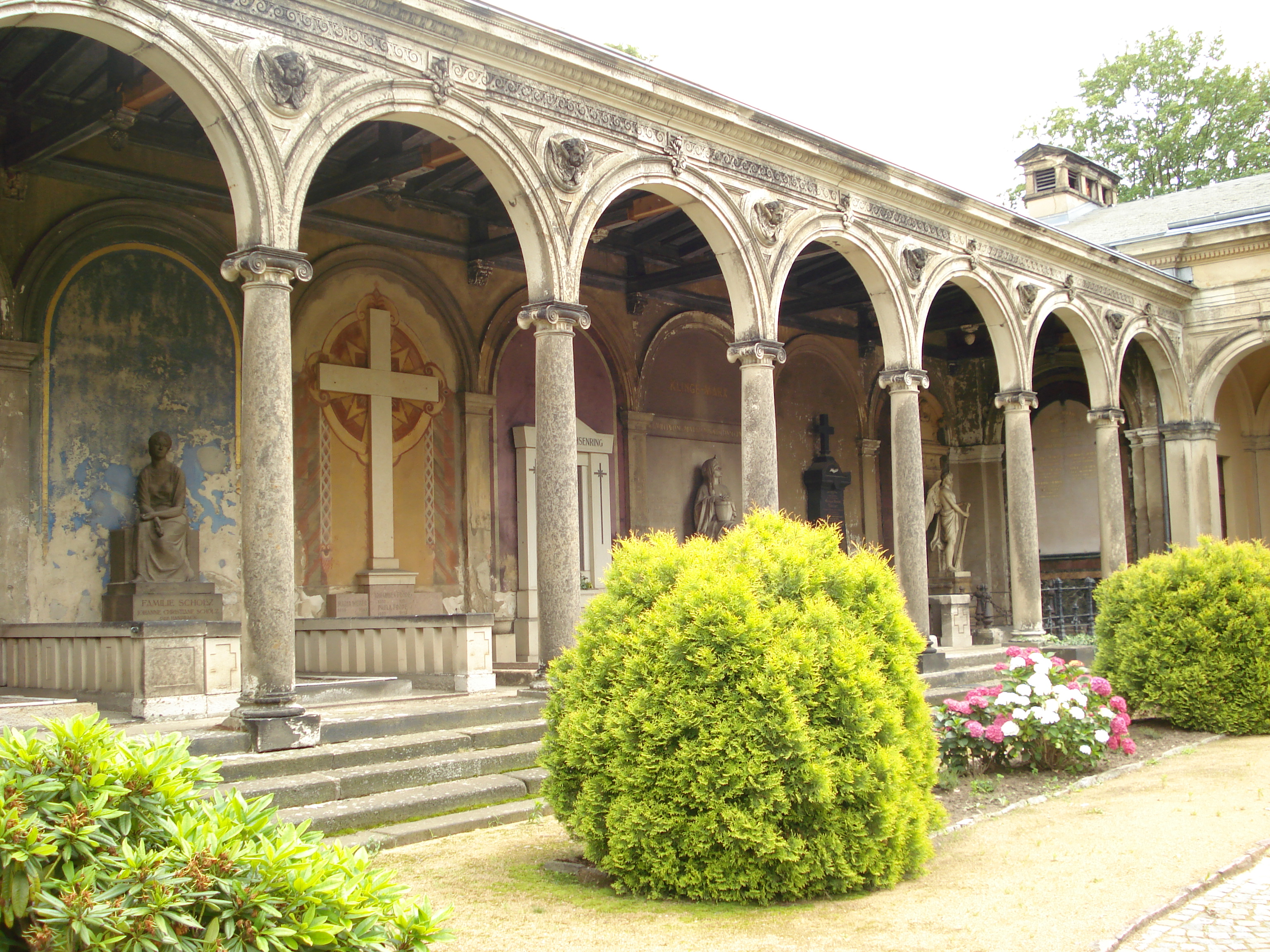 The Neue Annenfriedhof of Dresden.